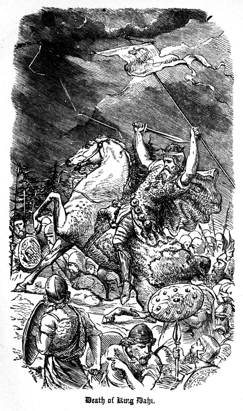 "Death of King Dahi", illustration by John Fergus O'Hea from A. M. Sullivan, The Story of Ireland, Dublin: M. H. Gill & Son, 1867, opposite p. 48